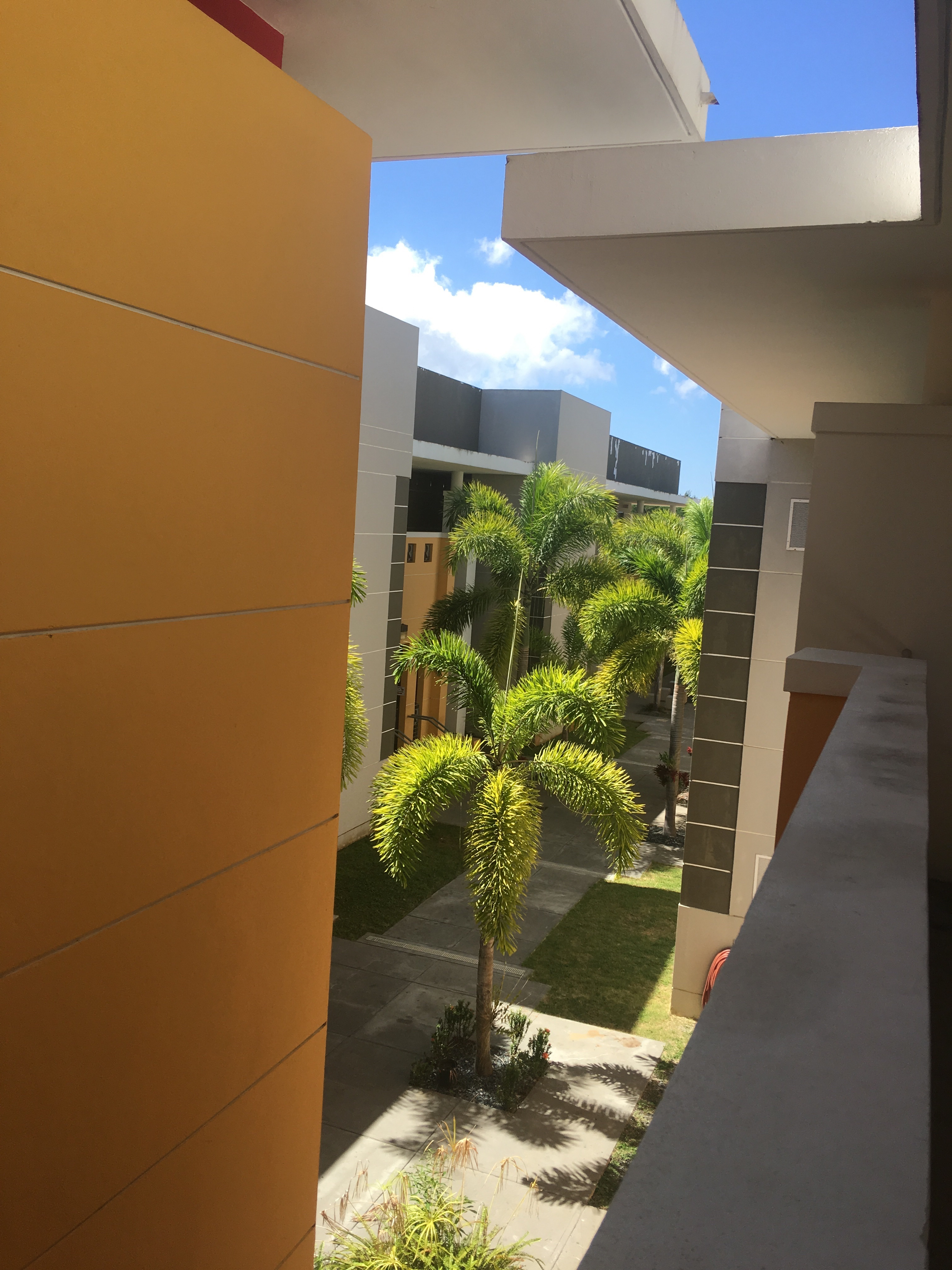 Interior Patio of the Enrique A. Laguerre's library at the University of Puerto Rico in Aguadilla